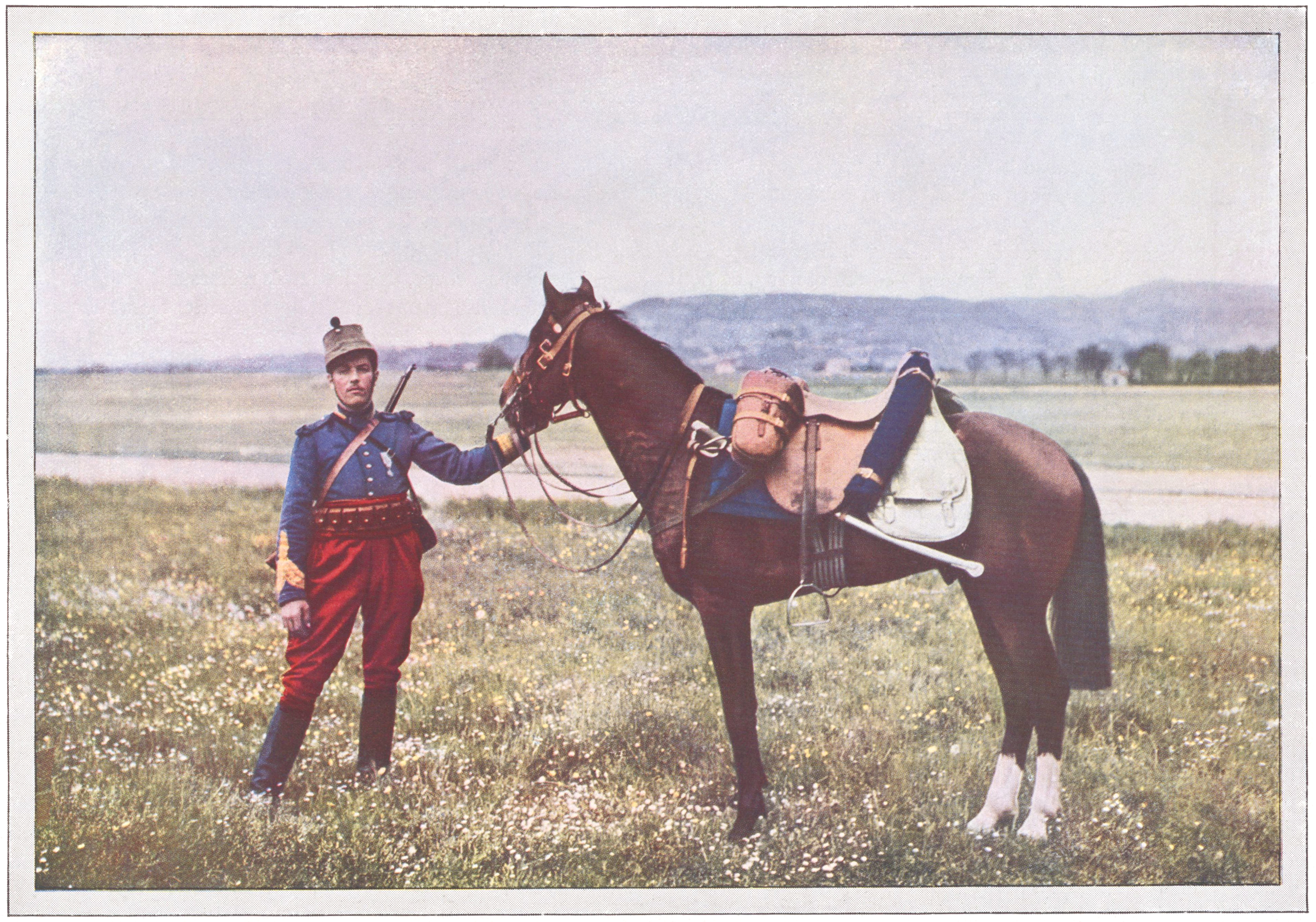 A Brigadier of the 1st regiment of french Chasseurs d'Afrique with his horse. Battle of the Marne, 1914-1915. Reproduction for press of an autochrome, not a colorized picture.